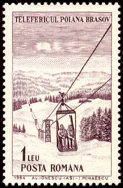 Postage stamp of Romania, Poiana Brasov, 1 leu, 1964